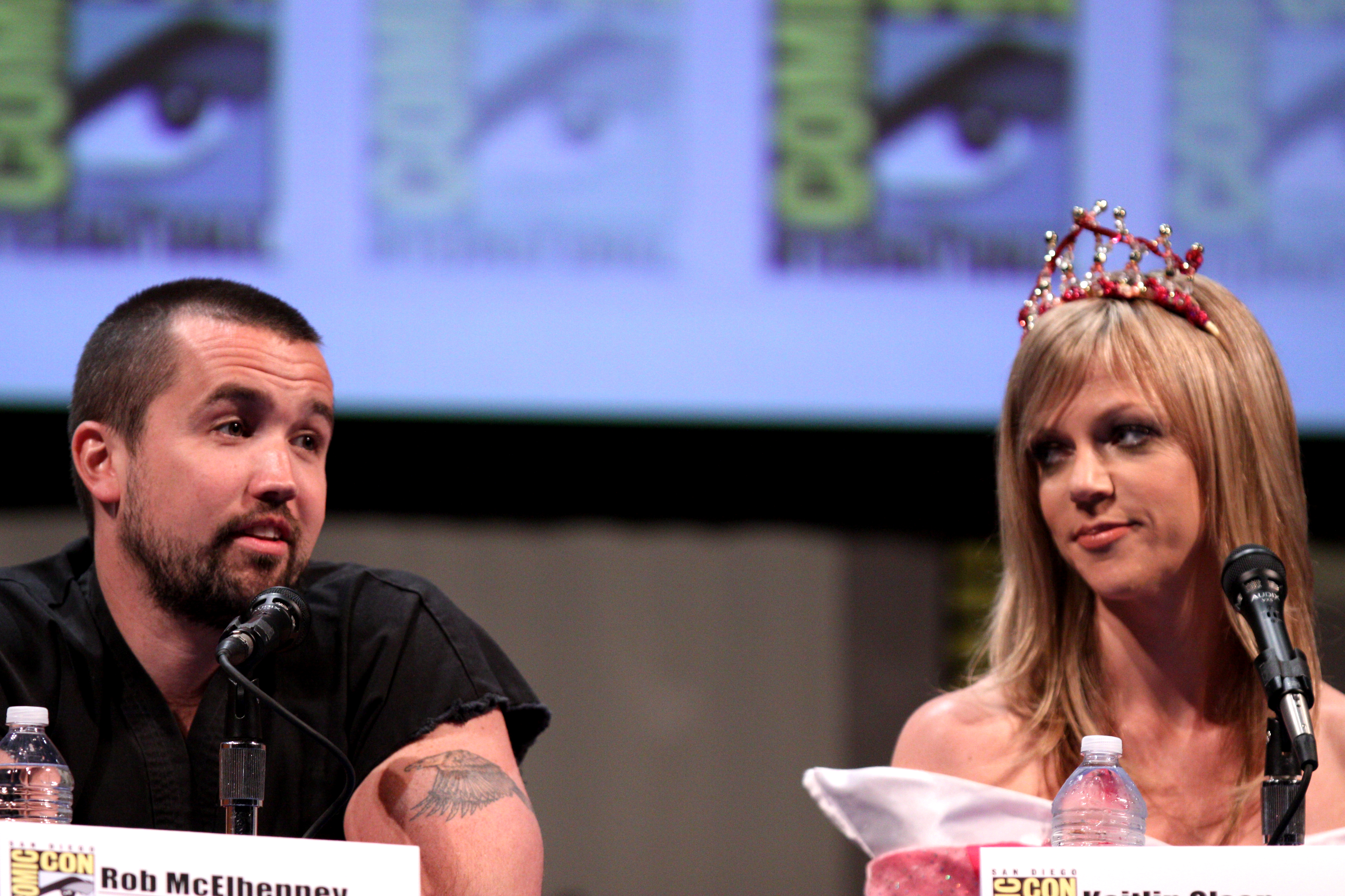 Rob McElhenney and Kaitlin Olson at the 2011 San Diego Comic-Con International in San Diego, California.